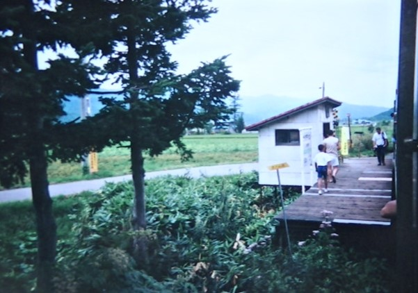 JR Shinmei line Kami Horokanai station (1995)